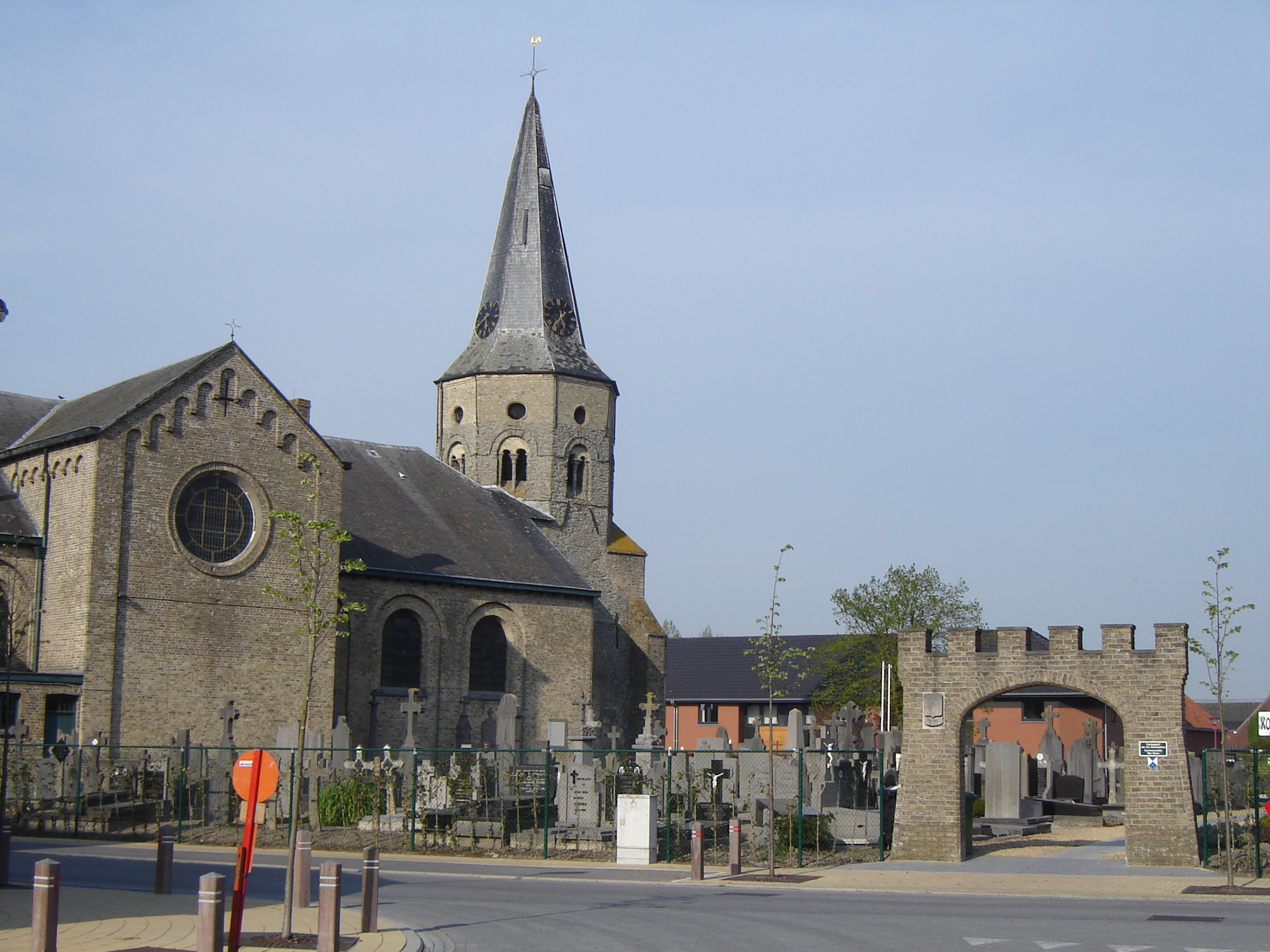 Church of Saint Gertrude, with gate and cemetery. Bovekerke, Koekelare, West-Flanders, Belgium